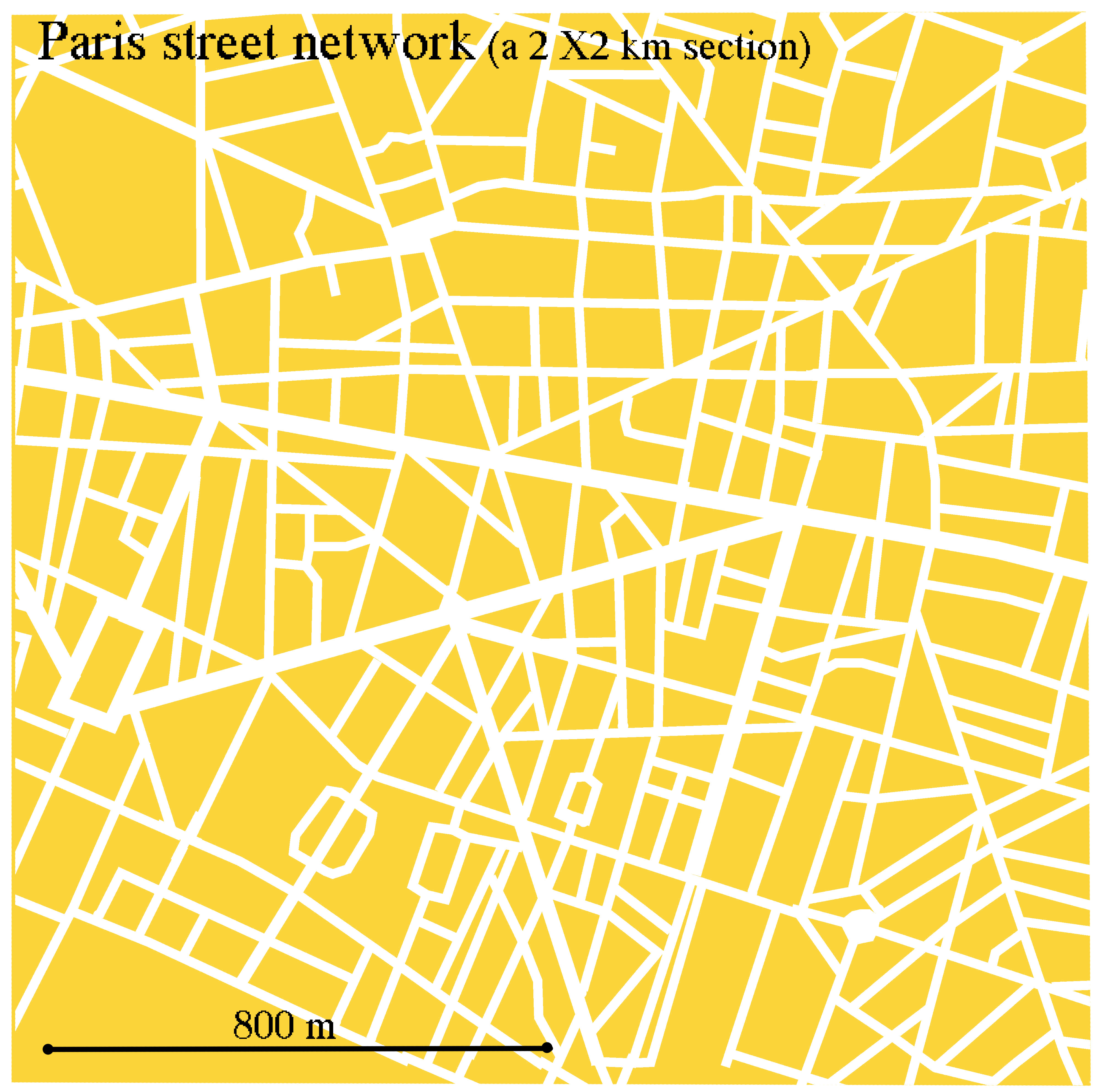 A 2 by 2 km square section of Paris, France showing the street network and an aproximate scale